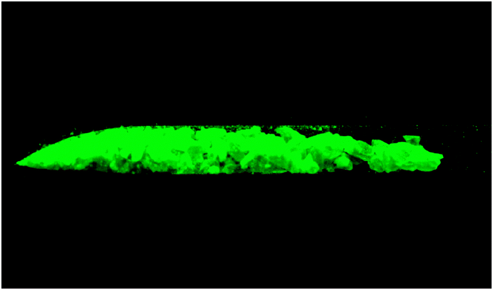 luminescence of solid Eu(Tpi Pr2)2 under UV light 中文（中国大陆）: 紫外光下的Eu(Tpi Pr2)2固体的荧光